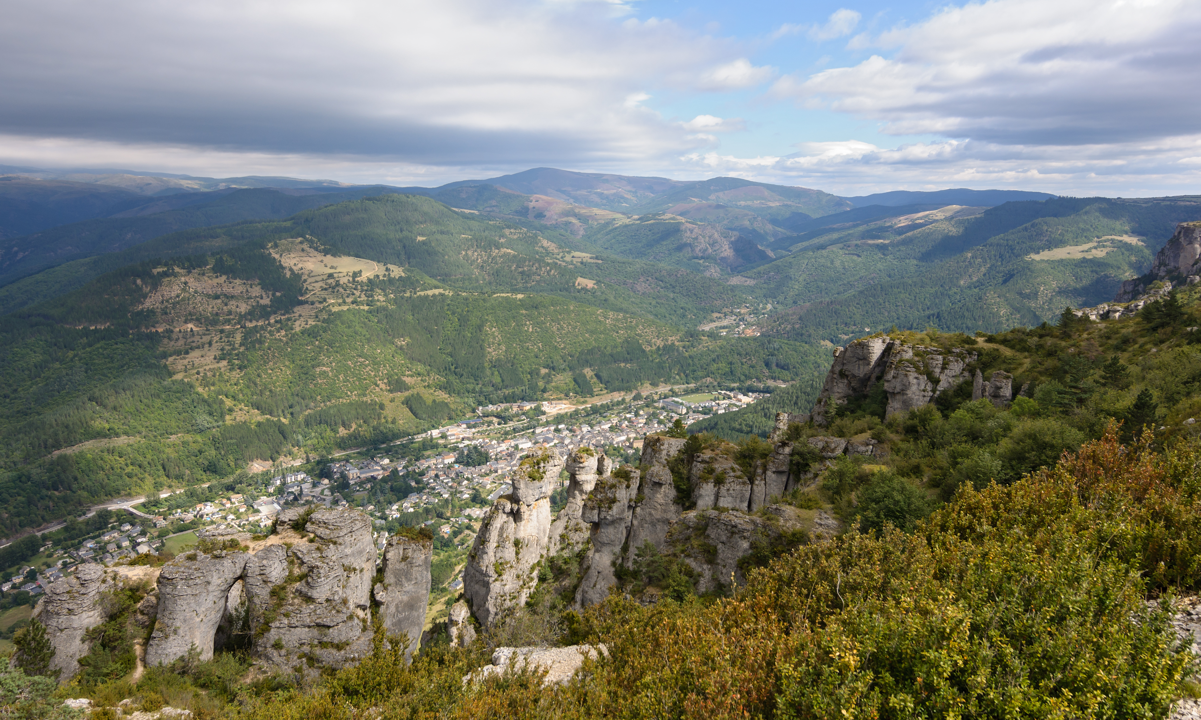 View from the edge of Causse Méjean: Florac, Bougès Mountain and the valley of the Mimente river in the Cévennes National Park, Lozère, France.